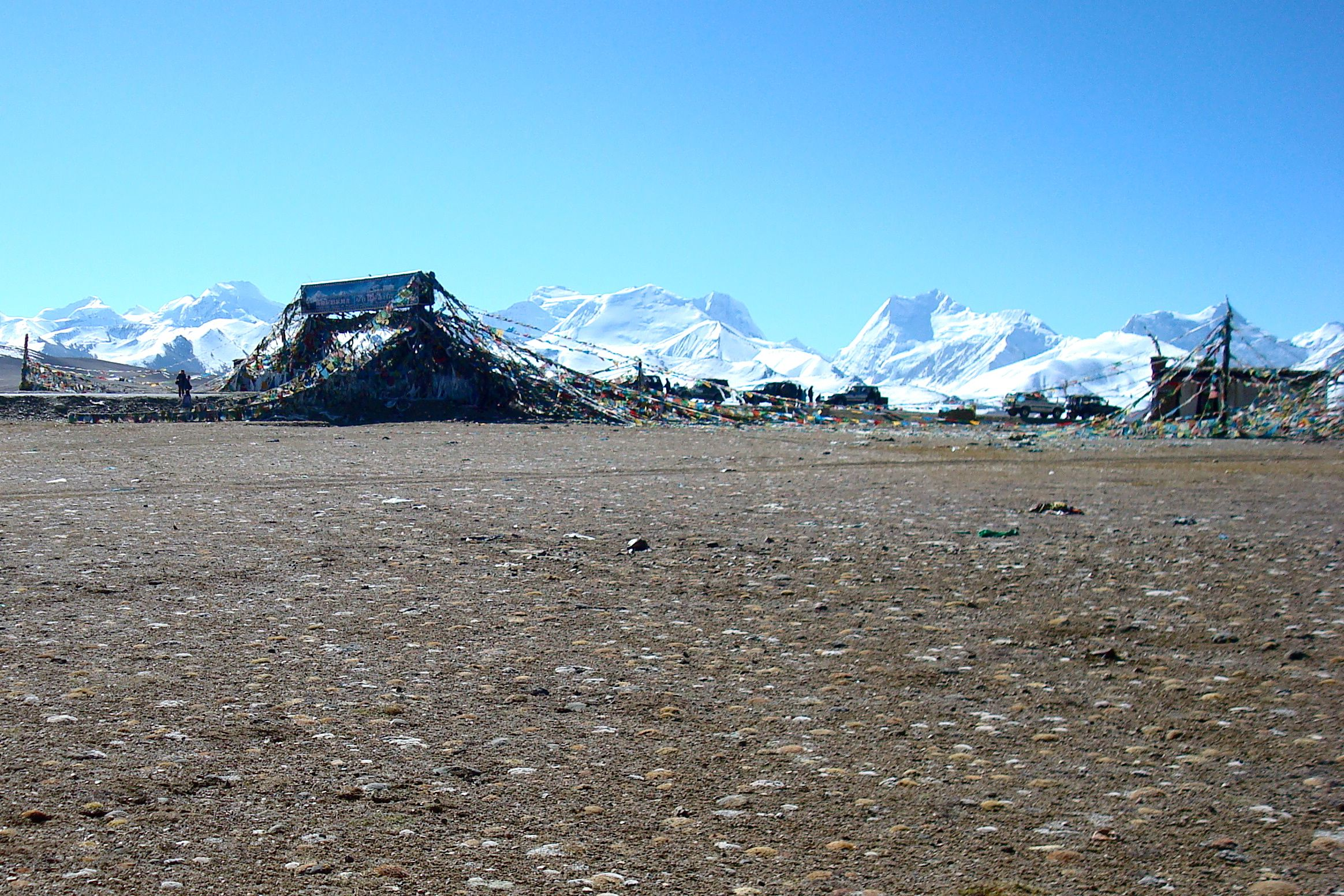 Tong La Pass and Labuche Himal